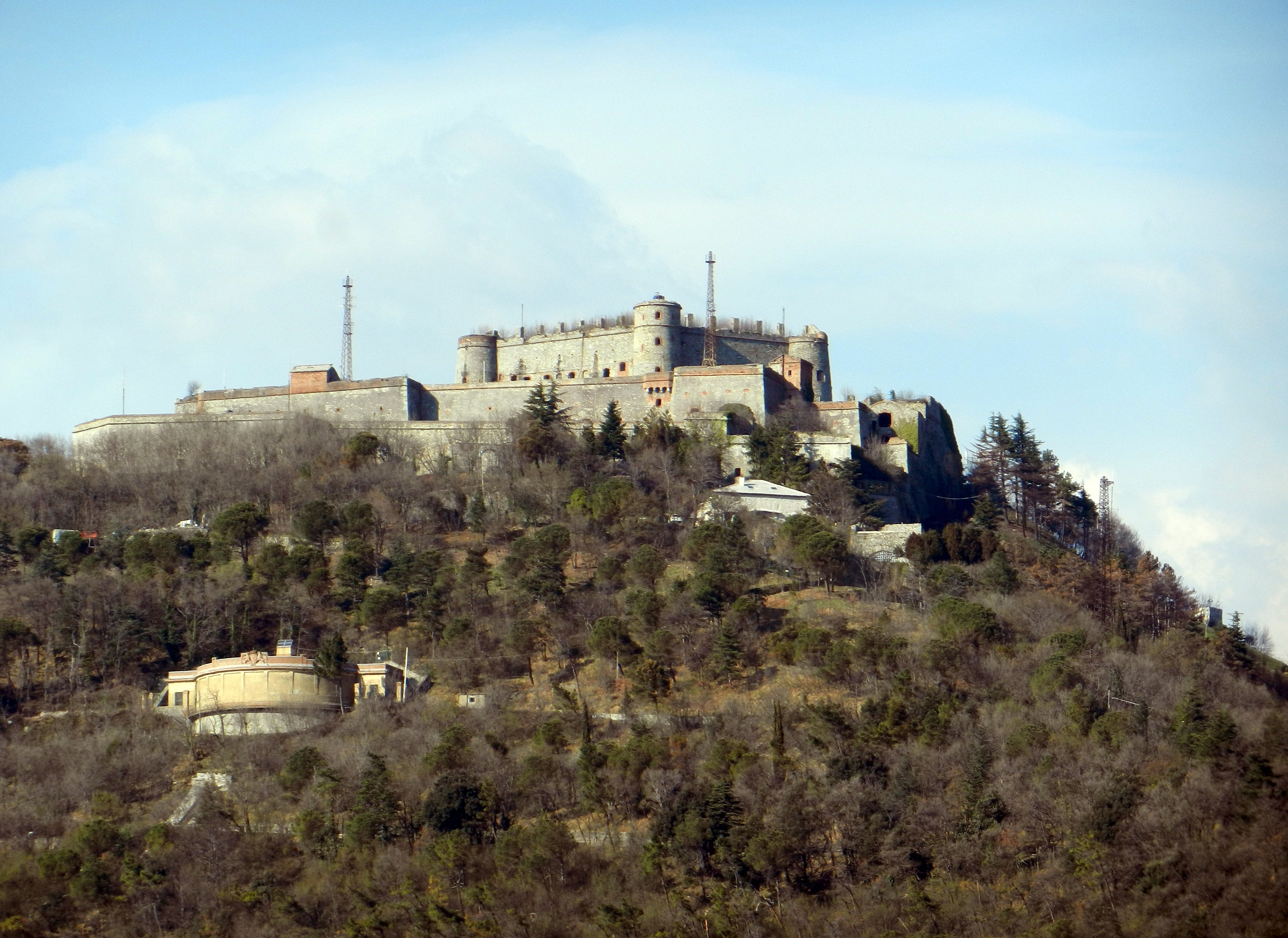 Genoa, Italy, Fort Sperone seen from Peralto Park